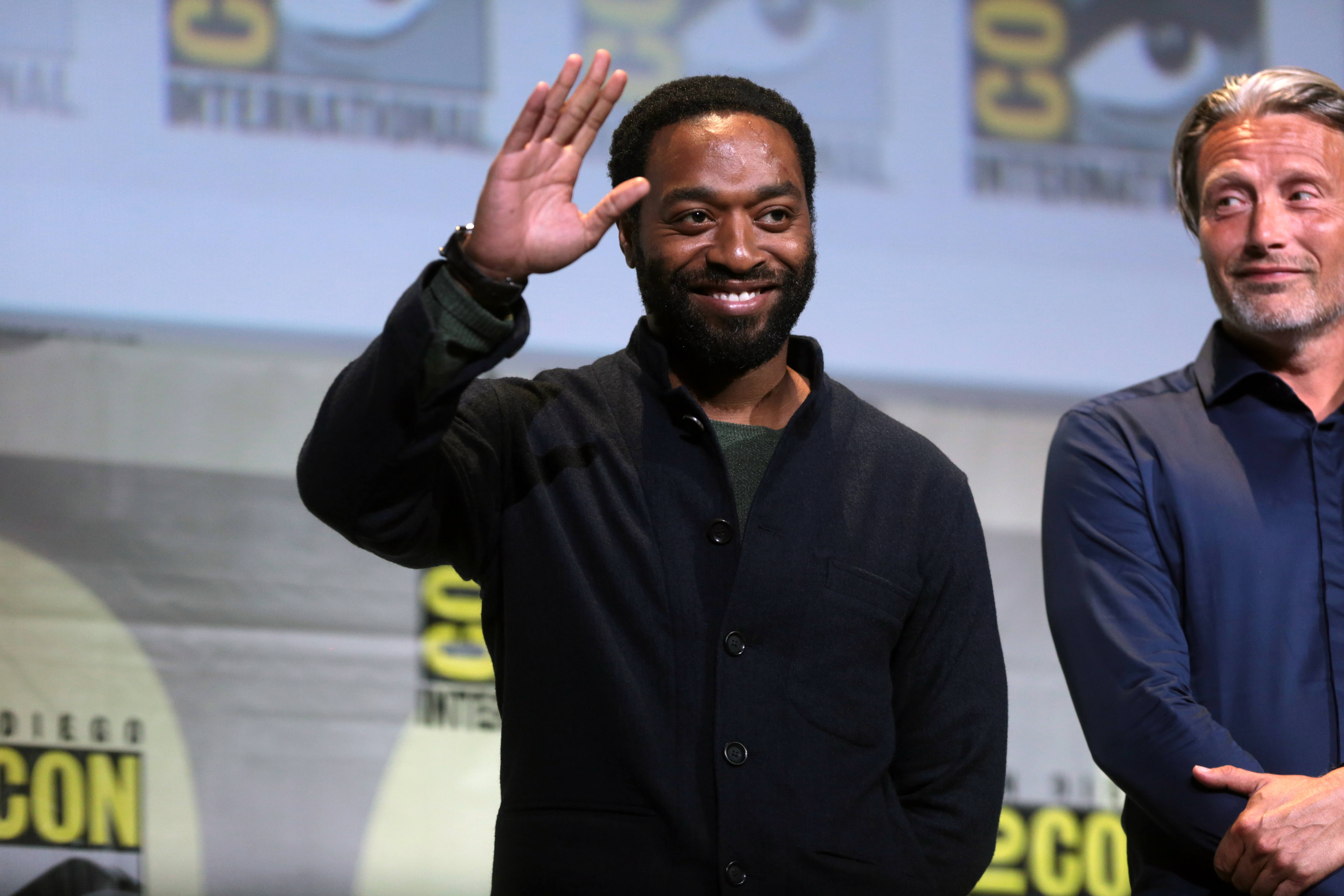 Chiwetel Ejiofor speaking at the 2016 San Diego Comic Con International, for "Doctor Strange", at the San Diego Convention Center in San Diego, California.